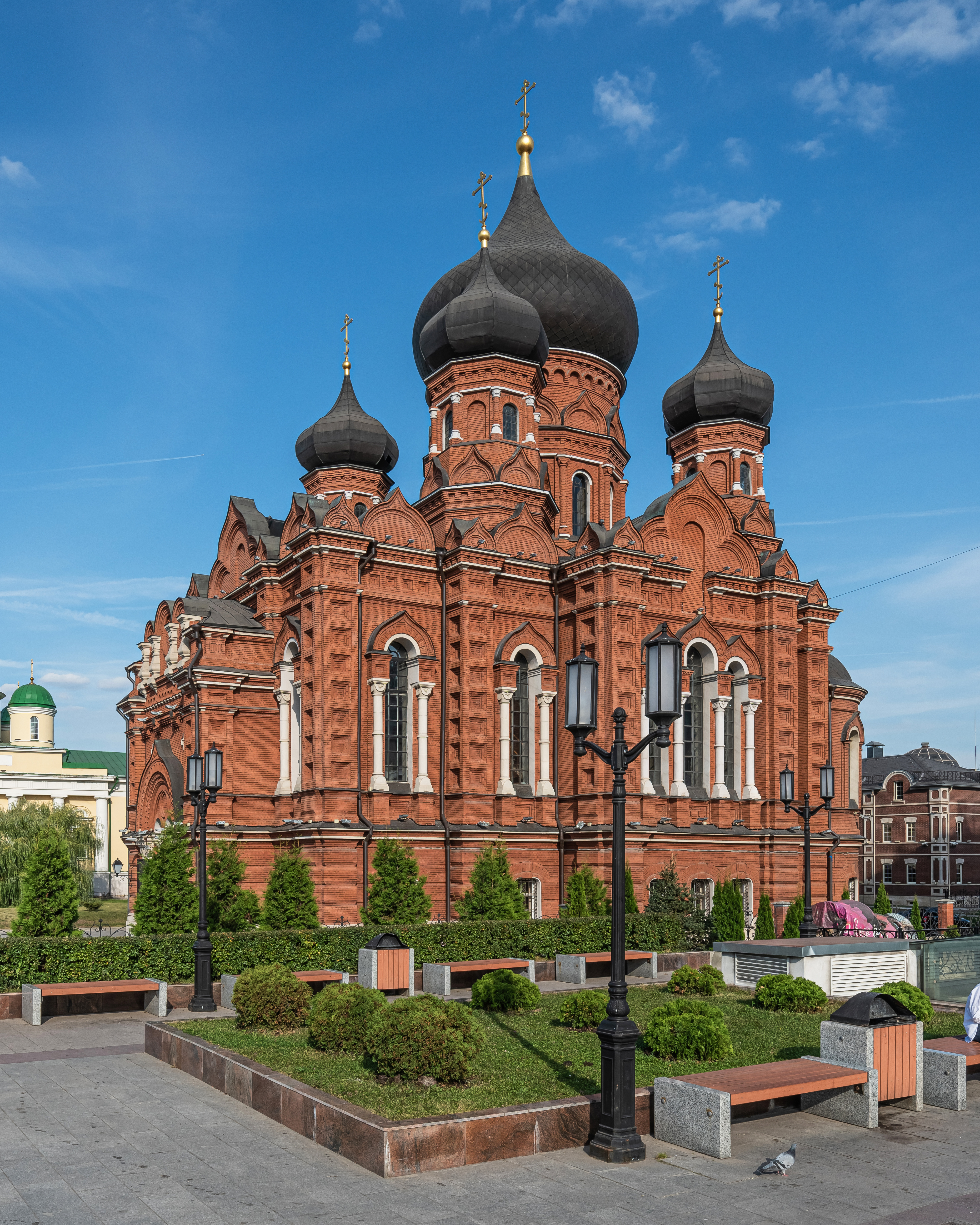 Cathedral of the former Uspensky Convent in Tula, Russia